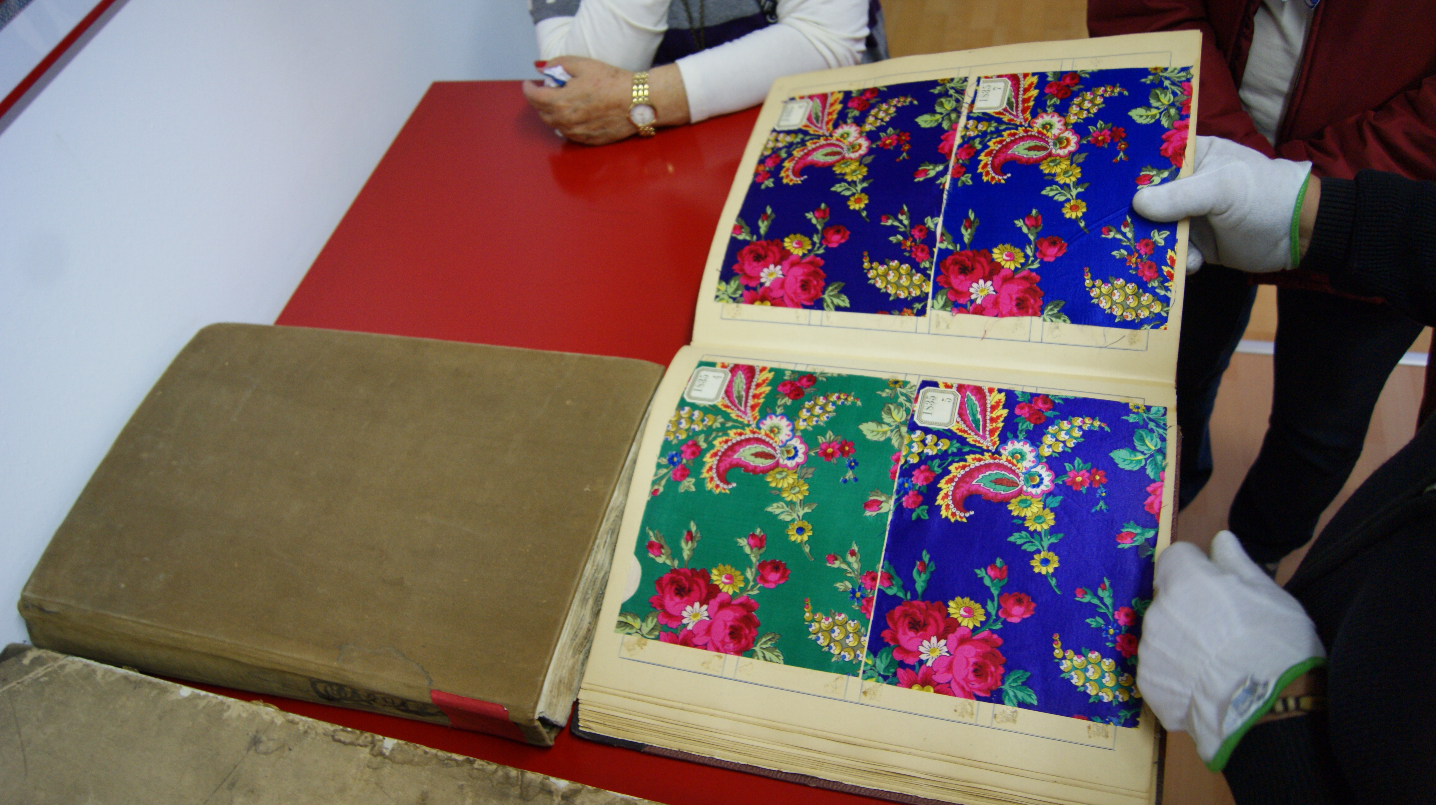 Textile patterns archive in Dornbirn, Vorarlberg, Austria. Sample collection.